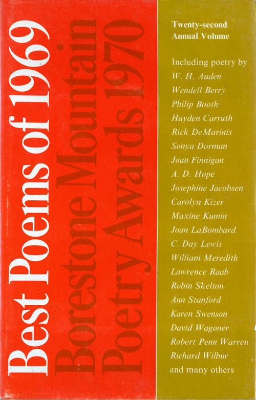 Cover of Best Poems of 1969: Borestone Mountain Poetry Awards 1970, Volume 22 of the anthology series Borestone Mountain Poetry Awards series.